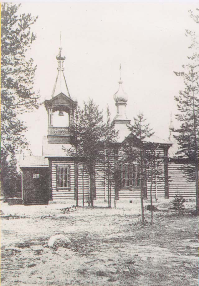 The orthodox church of Perkjärvi (Muolaa), in the Finnish Karelia ceded to the Soviet Union in 1944.